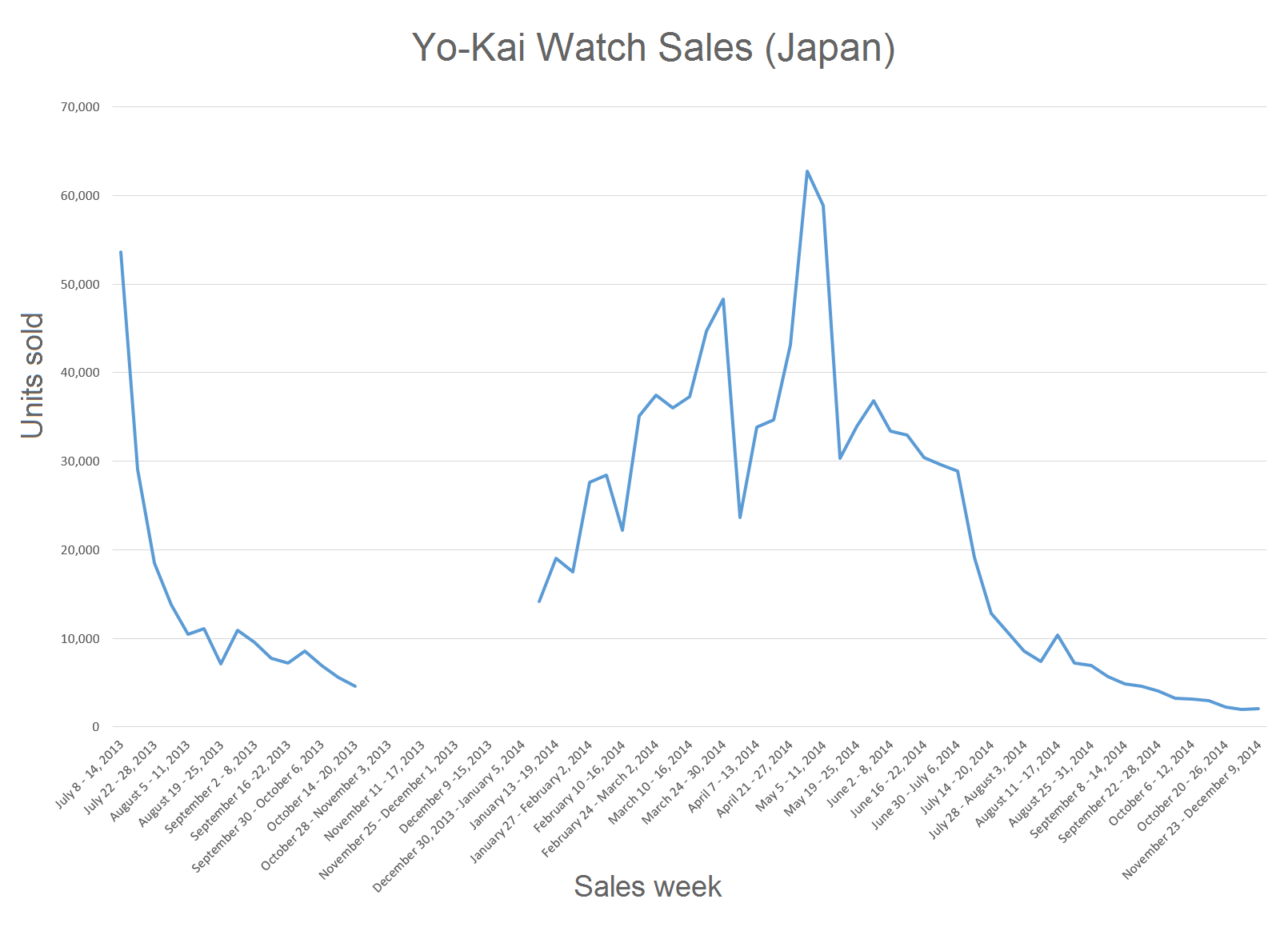 A line graph depicting sales of the 2013 role-playing video game Yo-Kai Watch, a subject of popular culture in Japan. The graph was made with data from Media Create, the video game sales tracker in Japan, from July 2013 to December 2014. Made by Philip Terry Graham in Microsoft Excel 2016.